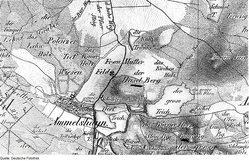 Original image description from the Deutsche Fotothek Naunhof-Ammelshain. Oberreit, Sect. Leipzig, 1836/39